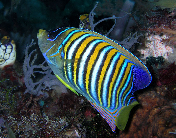 Regal angelfish found on the North coast of East Timor.